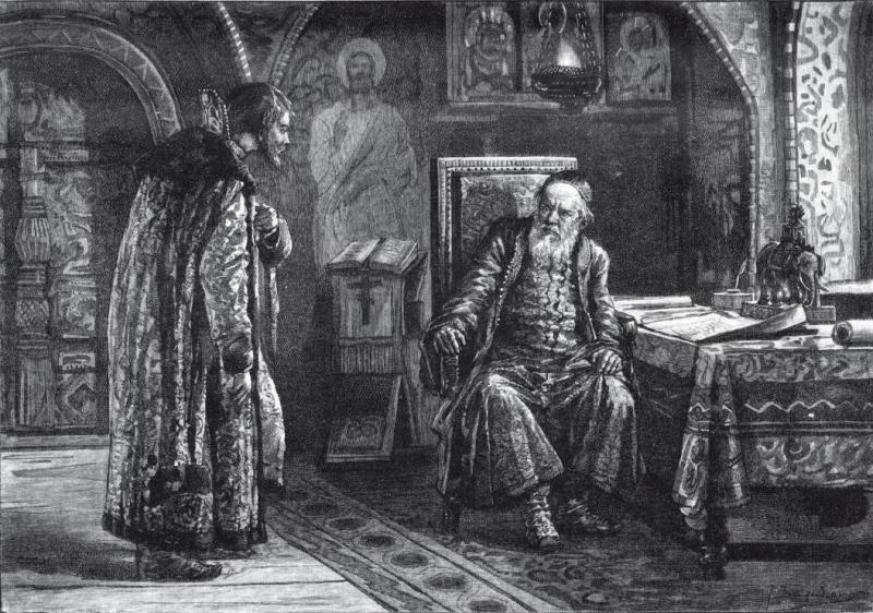 Mikhail Skopin-Shuisky meets Tsar Vasily IV Shuisky in Moscow